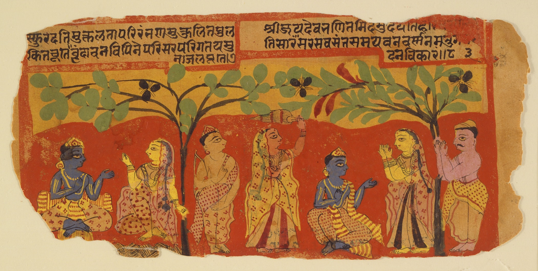 India, Gujarat, circa 1585 Books Opaque watercolor and ink on paper Image: 4 x 8 5/8 in. (10.16 x 21.91 cm); Sheet: 4 5/8 x 9 3/4 in. (11.75 x 24.77 cm) Gift of Ramesh and Urmil Kapoor (M.88.225a-b) South and Southeast Asian Art